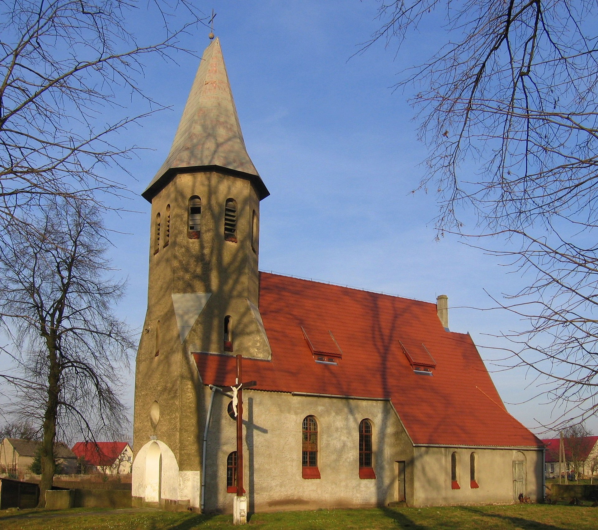 Church of the Exaltation of the Holy Cross in Otok, Poland